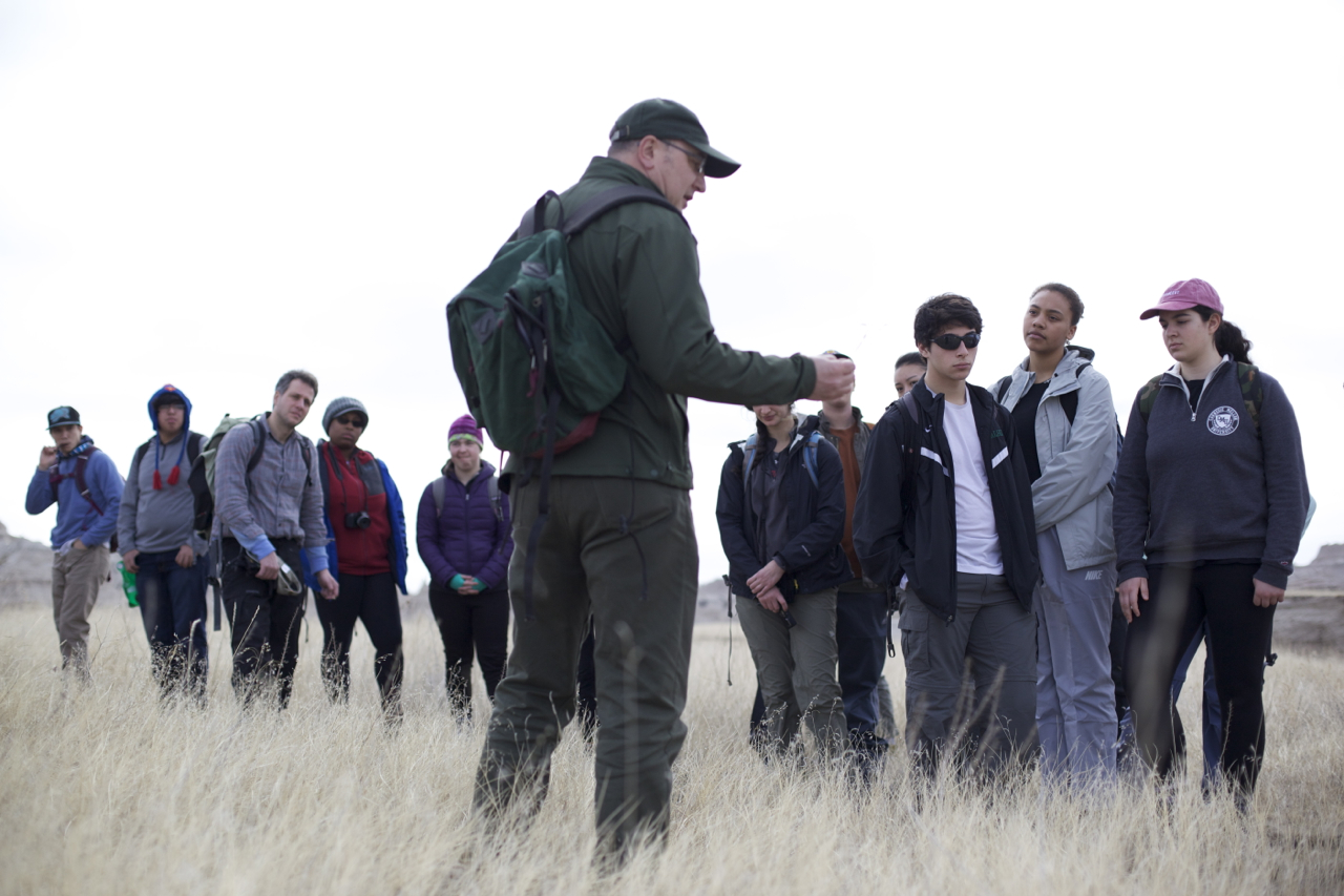 The Calhoun and Red Cloud students take a hike through Sheep Mountain Table and learn about the environment from Park Ecologist Milt.